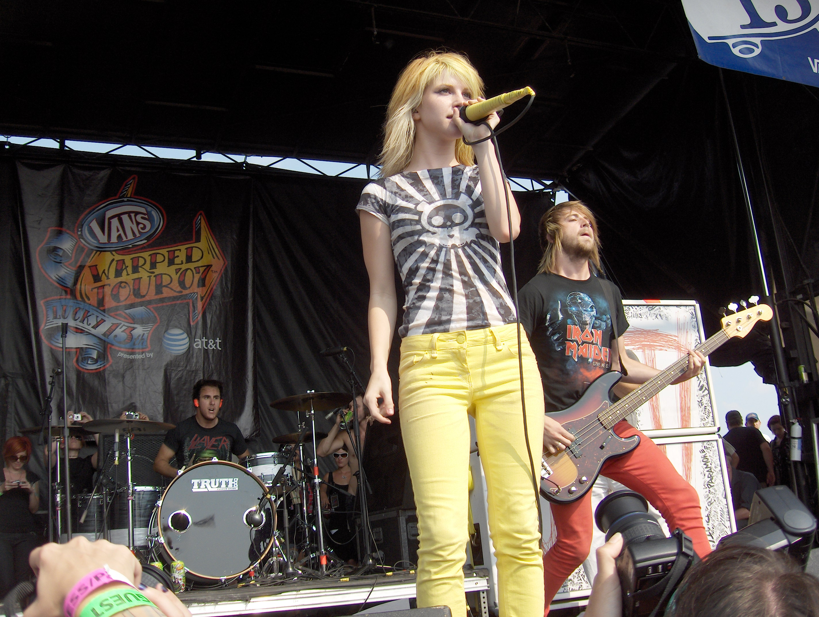 Zac Farro (drums), Hayley Williams (vocalist), and Jeremy Davis (bass guitar) of Paramore, performing on the 2007 Vans Warped Tour at the Tweeter Center at the Waterfront in Camden, New Jersey, United States.